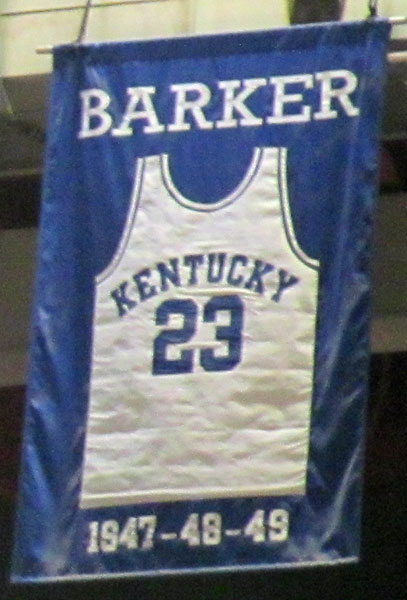 A jersey honoring Cliff Barker hanging in Rupp Arena in Lexington, Kentucky